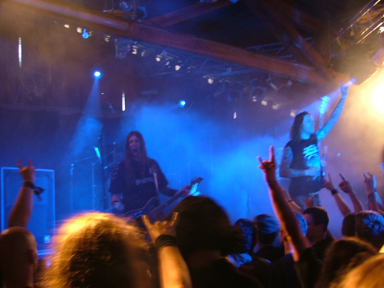 Danish melodic, death/thrash metal band Hatesphere